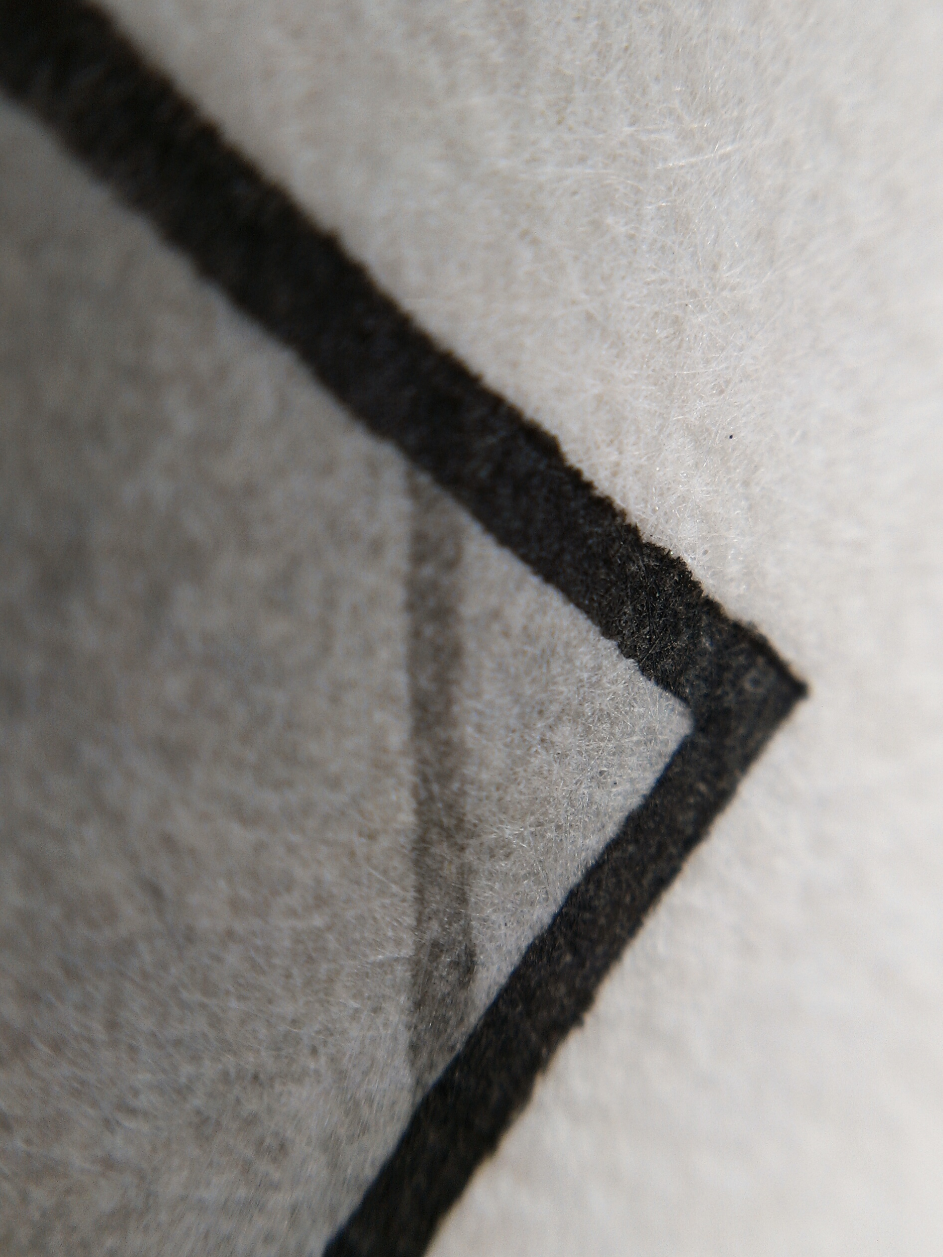 a close-up of the fibrous washi paper of a modern (2012) ukiyo-e woodblock print, showing inked and uninked washi